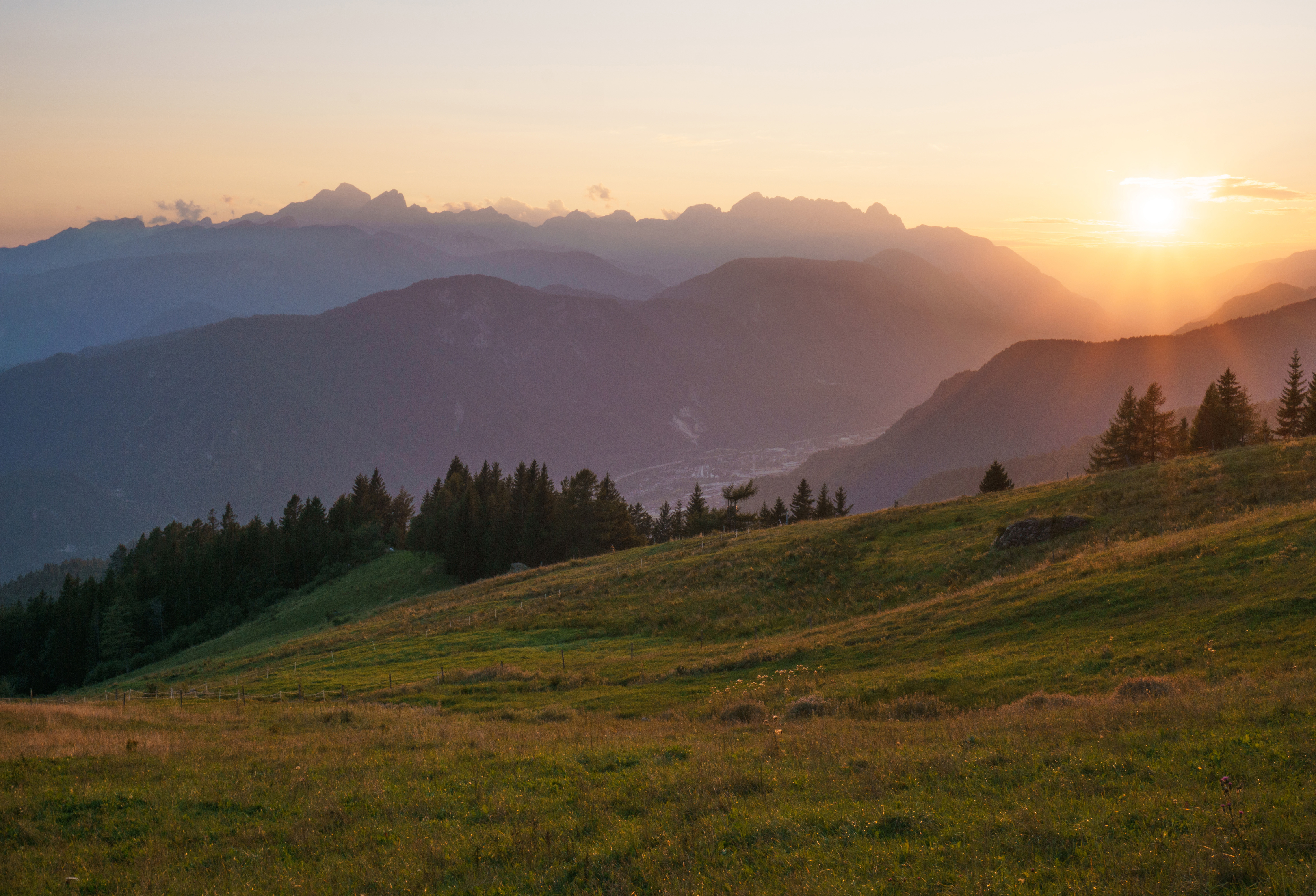 Potoška planina.